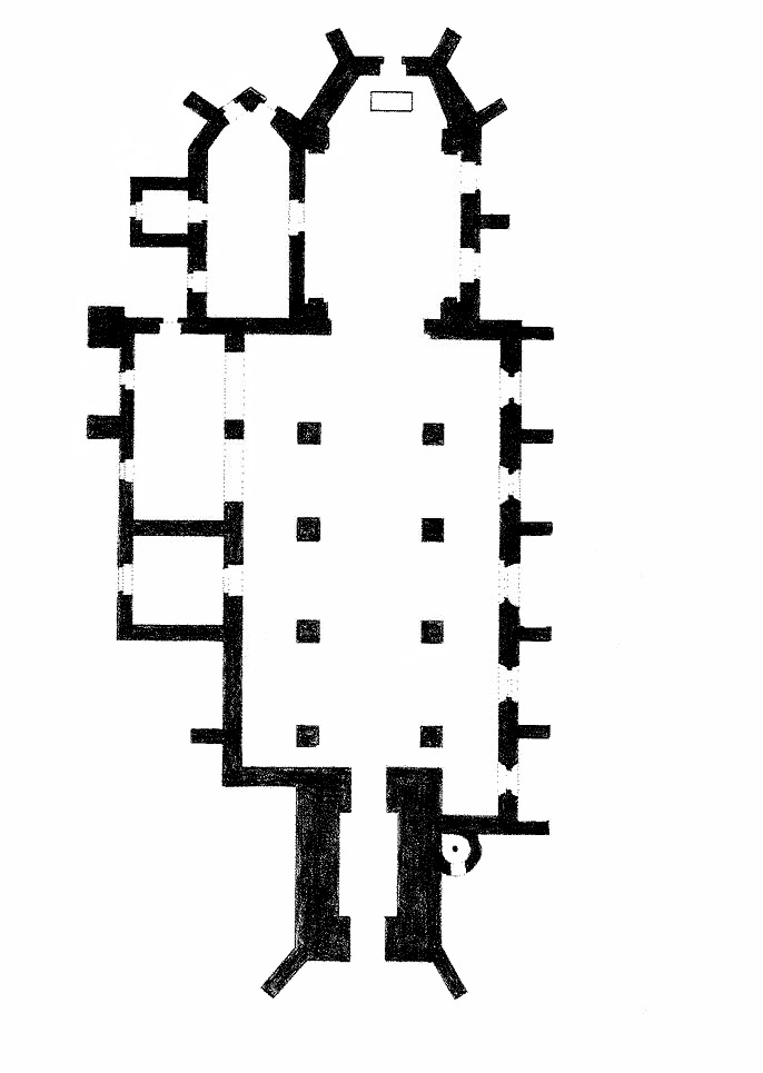 pôdorys kostola